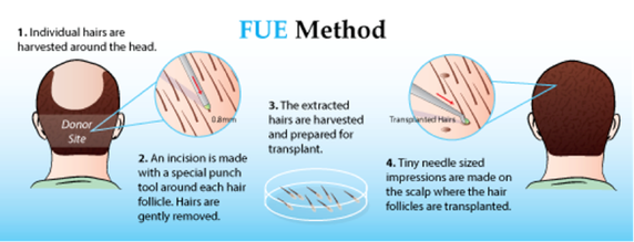 Hair Transplant Fue